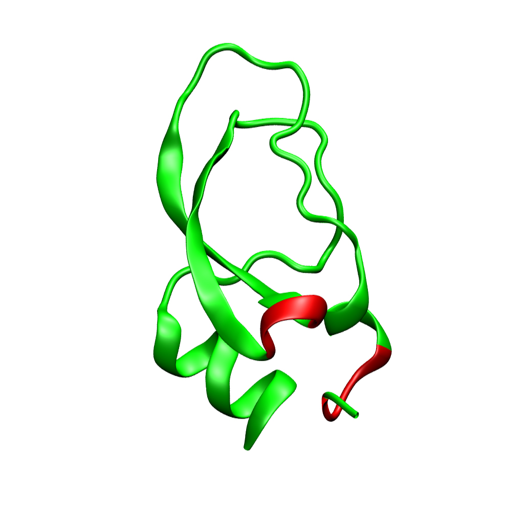 A VMD (visual molecular dynamics) construction of the 3D model of alpha-dendrotoxin. The pdb file was obtained at